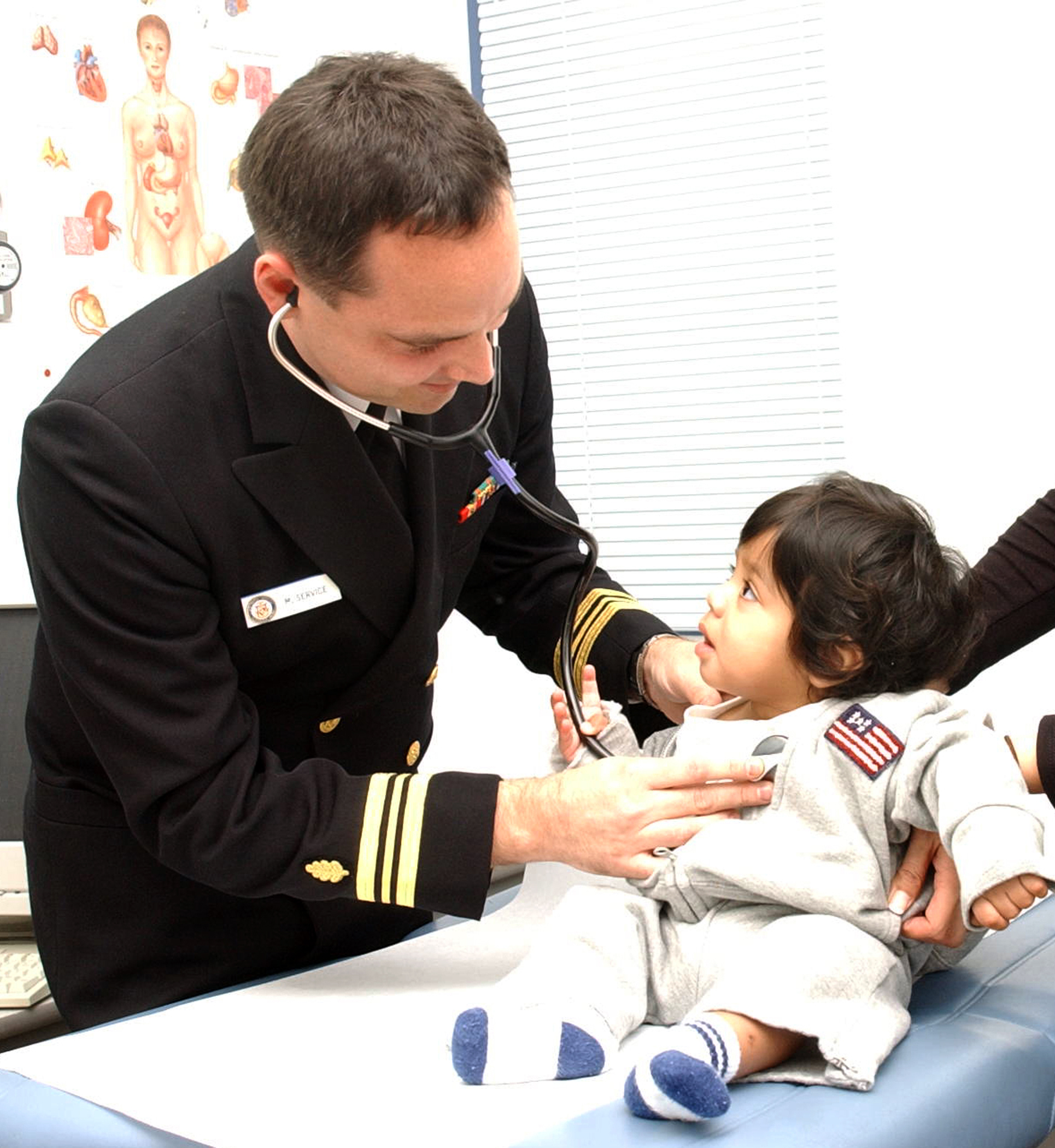 U.S. Naval Hospital Yokouska, Japan (October 27, 2003) -- Family Nurse Practitioner Lieutenat Commander Michael Service cares for a young girl at the U.S. Naval Hospital (USNH) Yokosuka. U.S. Navy photo by Tom Watanabe. (RELEASED)